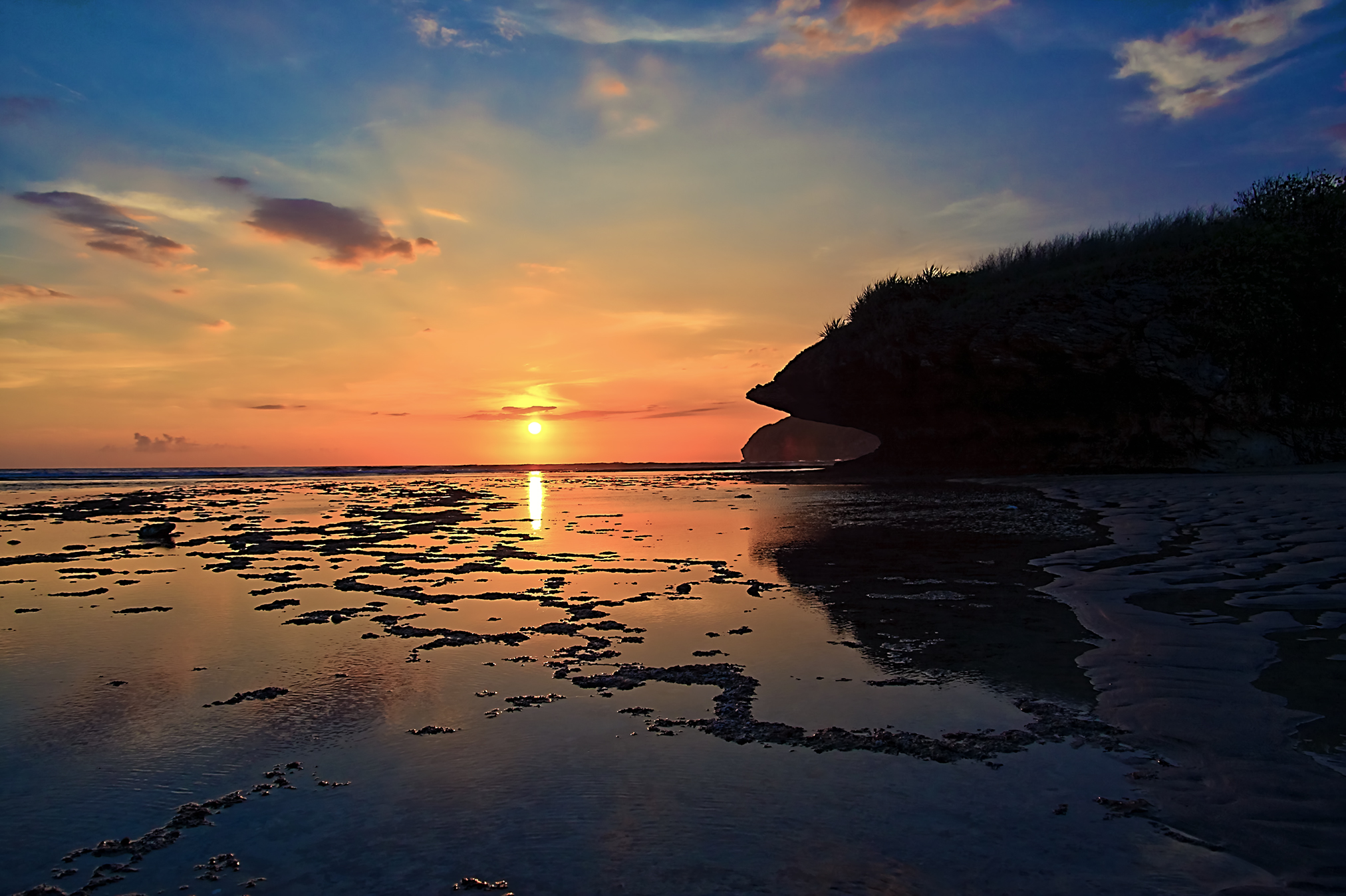 Sunset at Sekongkang Beach, Sumbawa Island, Indonesia